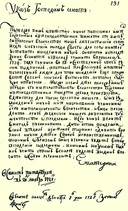 Ukase of Catherine I of Russia (1725)